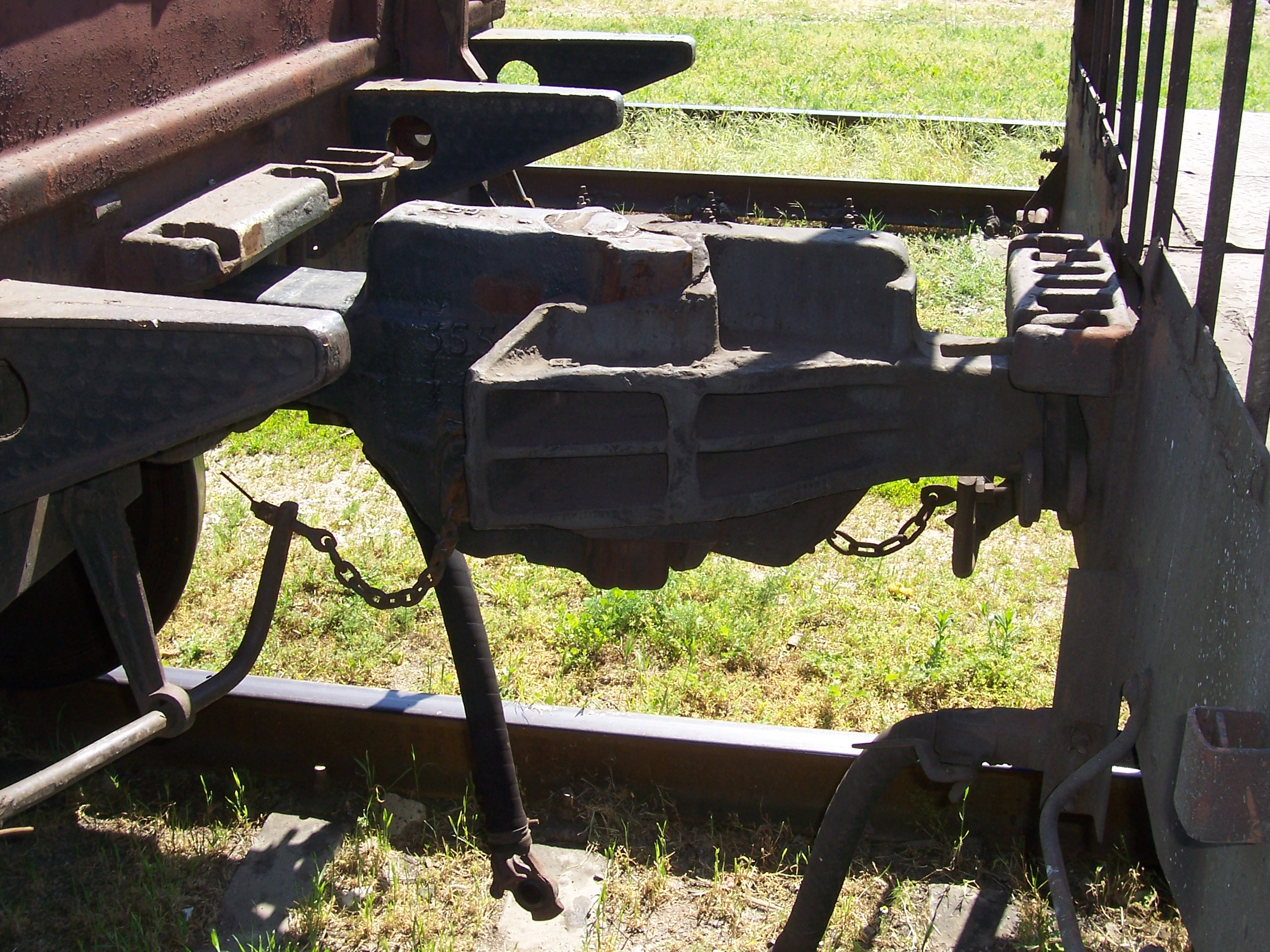 Eine russische SA-3 Eisenbahnkupplung an einem Güterwagen